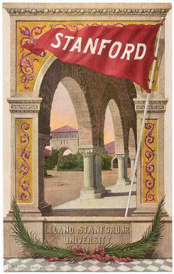 Stanford Banner Postcard, 1920